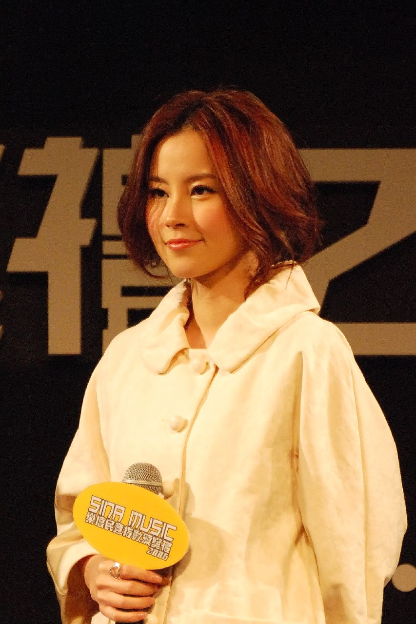 Theresa Fu at SINA Music樂壇民意指數頒獎禮 2006 (hosted on 29 January 2007)